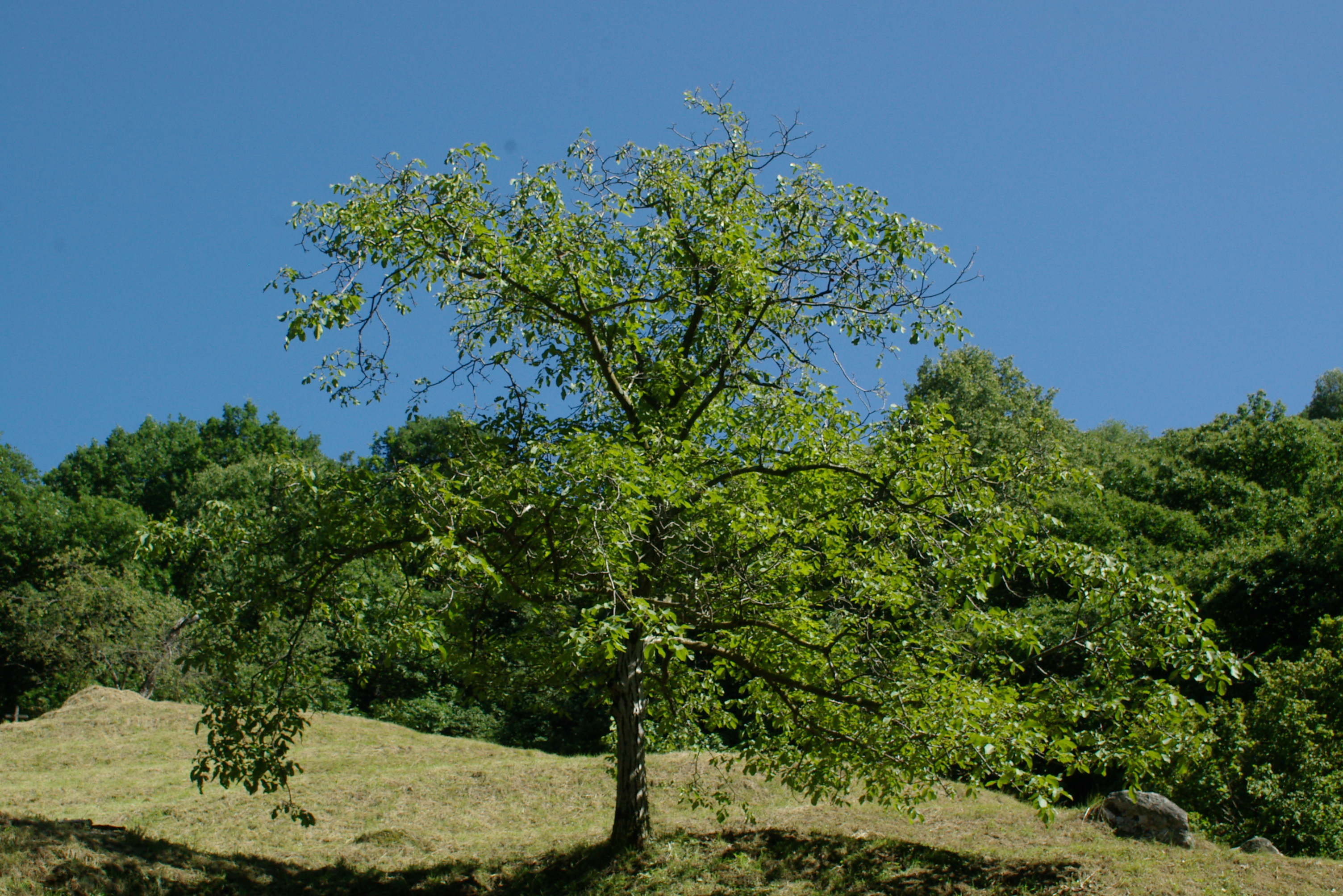 A Juglans regia tree in Ticino